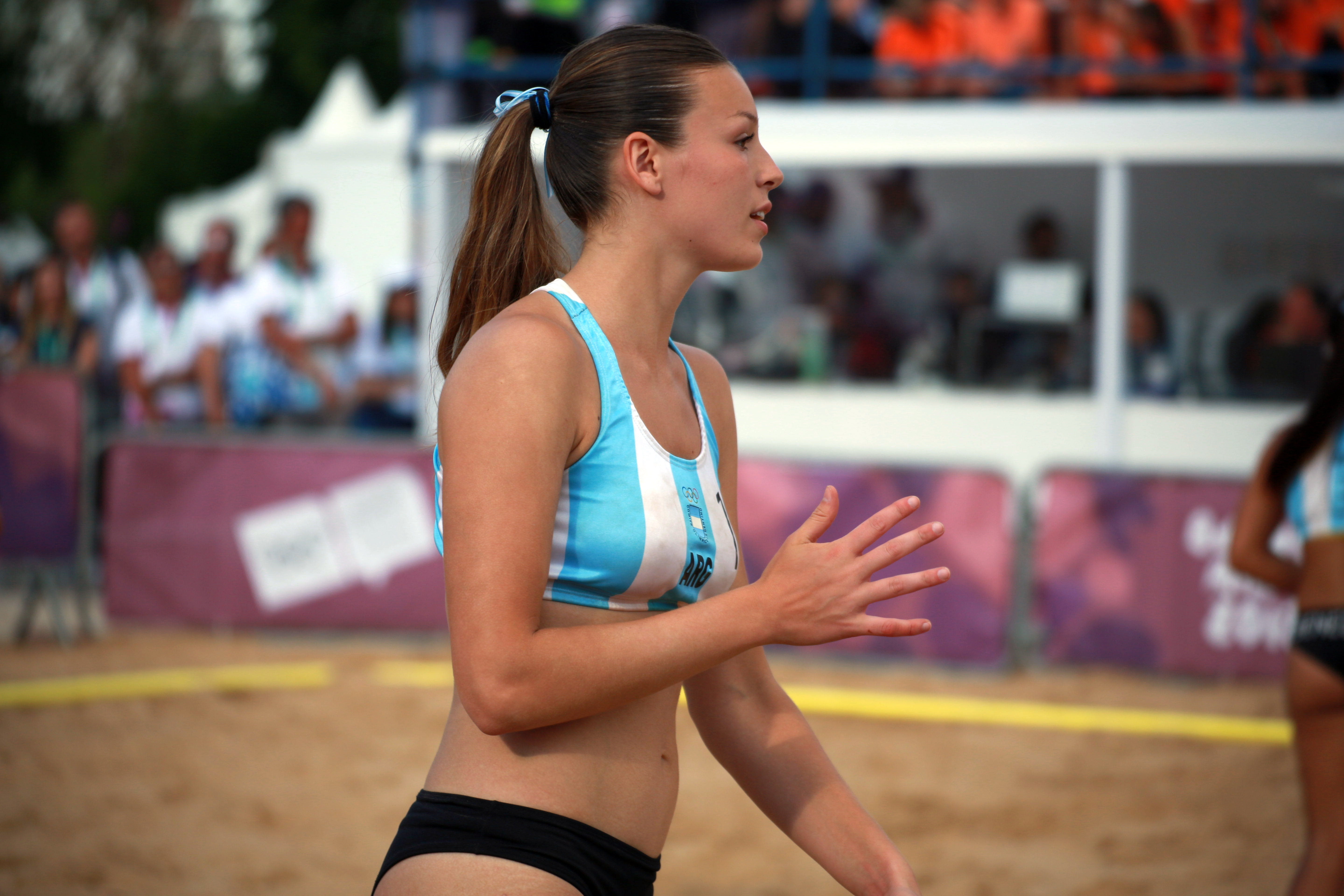 Beach handball at the 2018 Summer Youth Olympics in Buenos Aires at 13 October 2018 – Girls Gold Medal Match – Argentina-Croatia 2:0